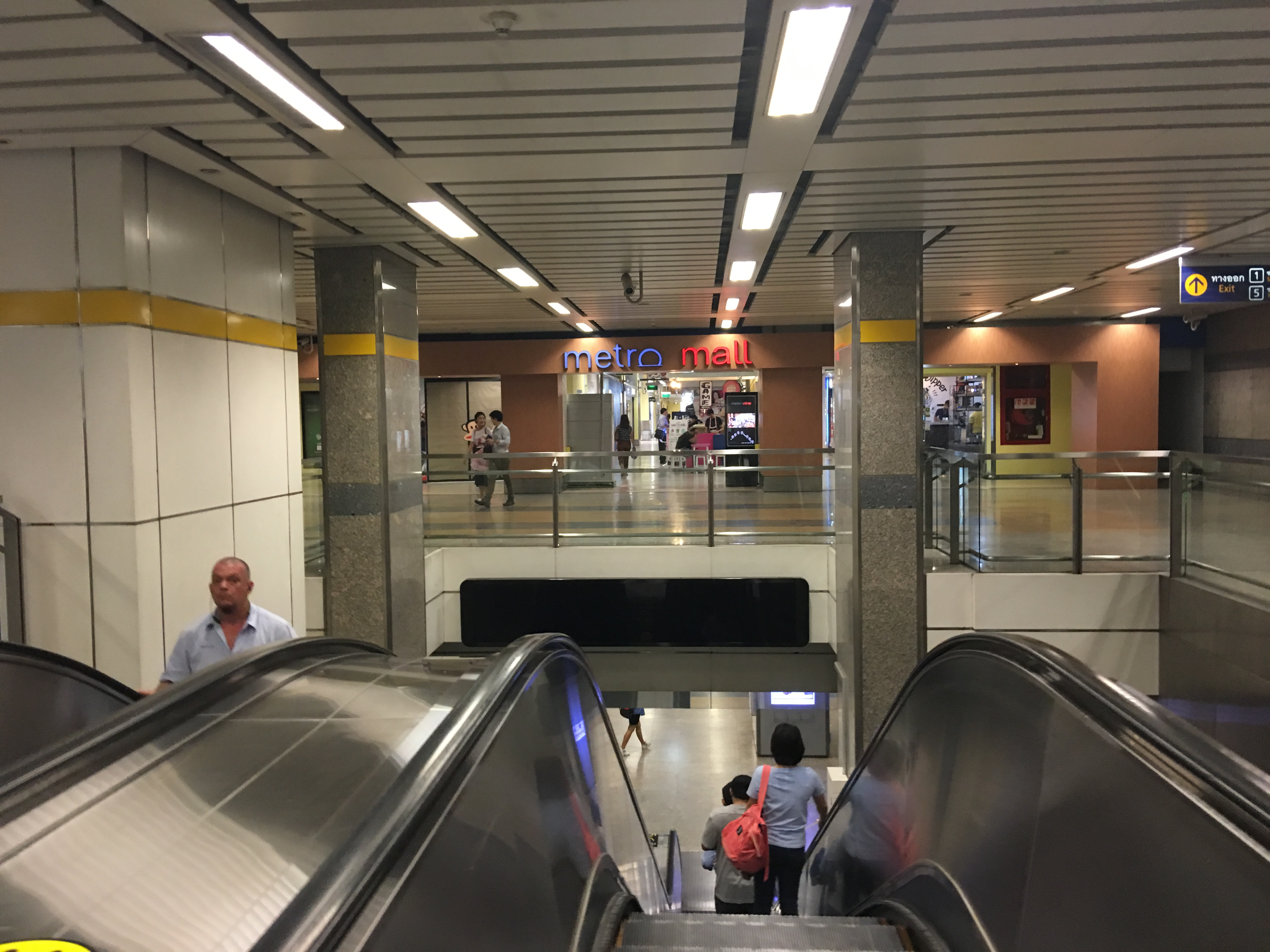 The shop and exit level of Phahon Yothin MRT Station